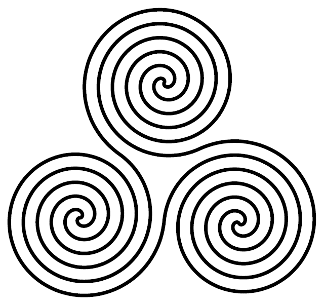 The Triple Spiral symbol, based on motifs found at the prehistoric site at Newgrange, Ireland, and used as a neo-pagan or Triple Goddess symbol. This version is made up of mathematical Archimedean spirals. For a version with thicker lines, see Image:Triple-Spiral-Symbol-heavystroked.png . For spiral triskelions, see also Image:Triple-Spiral-Symbol-filled.png , Image:Triple-Spiral-Symbol-4turns-filled.png , and Image:Triskele-Symbol-spiral.png . For "wheeled" forms of the spiral triskelion/triple spiral symbol, see Image:Wheeled-Triskelion-basic.png , Image:Roissy triskelion iron ring signet.png , Image:Triple-spiral-wheeled-simple.png , or Image:Triskelion-spiral-threespoked-inspiral.png . For a spiral triskelion with a hollow triangle in the center, see Image:Triskele-hollow-triangle.png . For versions of a triple-spiral labyrinth, see Image:Triple-Spiral-labyrinth.png and Image:Triple-Spiral-labyrinth-variant.png .